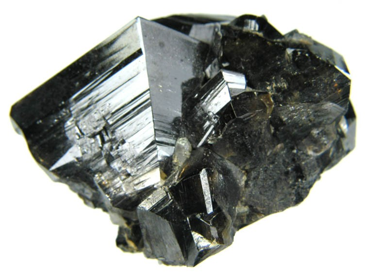 Cassiterite Locality: Viloco Mine (Araca mine), Loayza Province, La Paz Department, Bolivia (Locality at ) Size: 6.2 x 5.4 x 4.3 cm. Bolivia has probably produced more tin than any other country in the world. The great tin mines at Viloco (sometimes called Araca) have produced some of the most magnificent Cassiterite specimens extant. This particular specimen consists of one particular superb quality, sharp, highly lustrous, very dark brown (slightly gemmy) cyclic twinned crystal measuring a whopping 4.2 cm across and associated with smaller cyclic twins on minor Quartz. To find a twin of this size and quality from Viloco is extremely rare, and this piece dates back over 40 years ago when some of the finest Cassiterites were mined at Viloco. Ex. Richard Kosnar Collection.